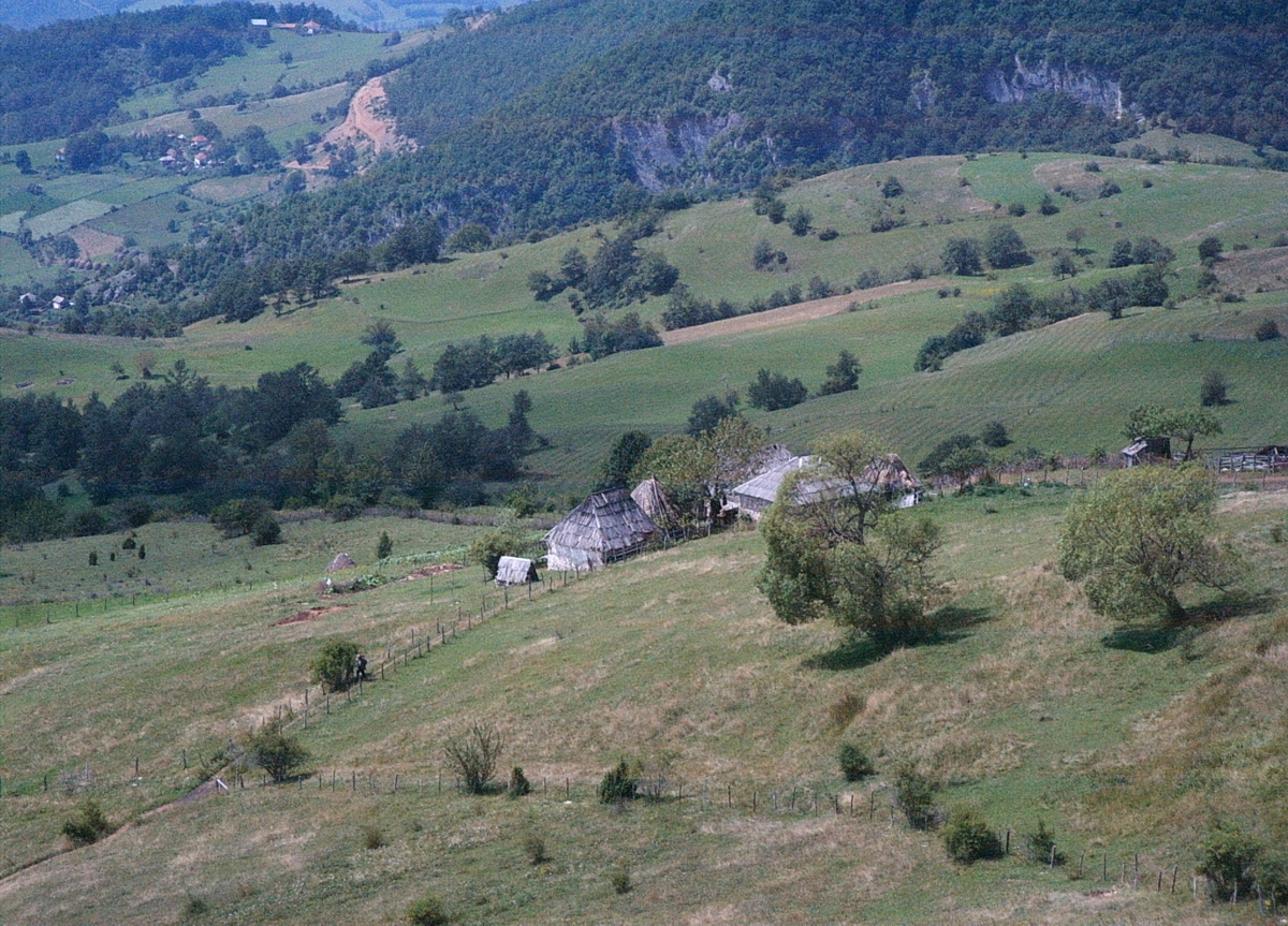 View on Gornji Stranjani from Jadovnik,Prijepolje municipality,Serbia.